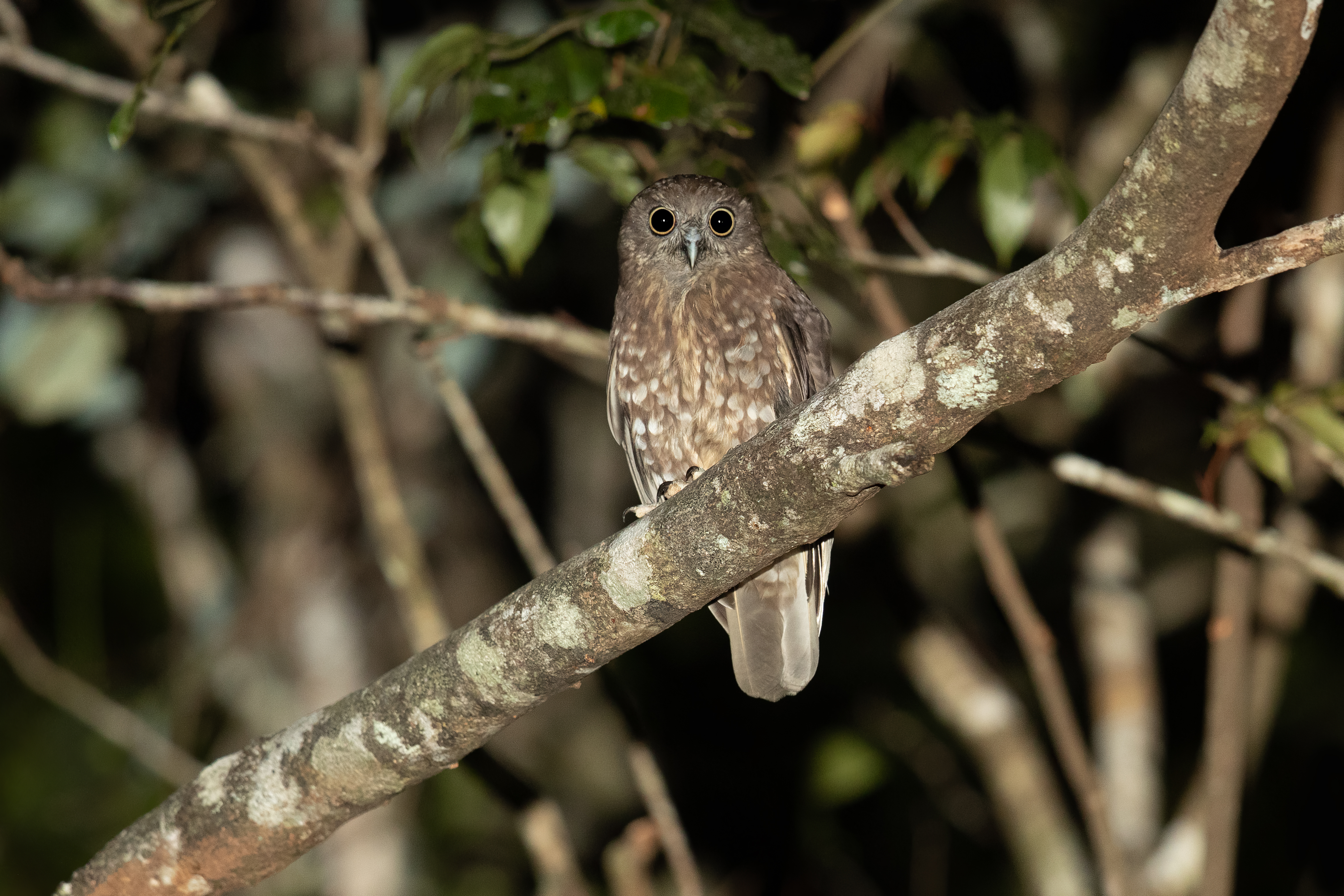 Southern Boobook (Red) (Ninox boobook lurida), Mount Hypipamee National Park--picnic area, Tablelands, Queensland, Australia